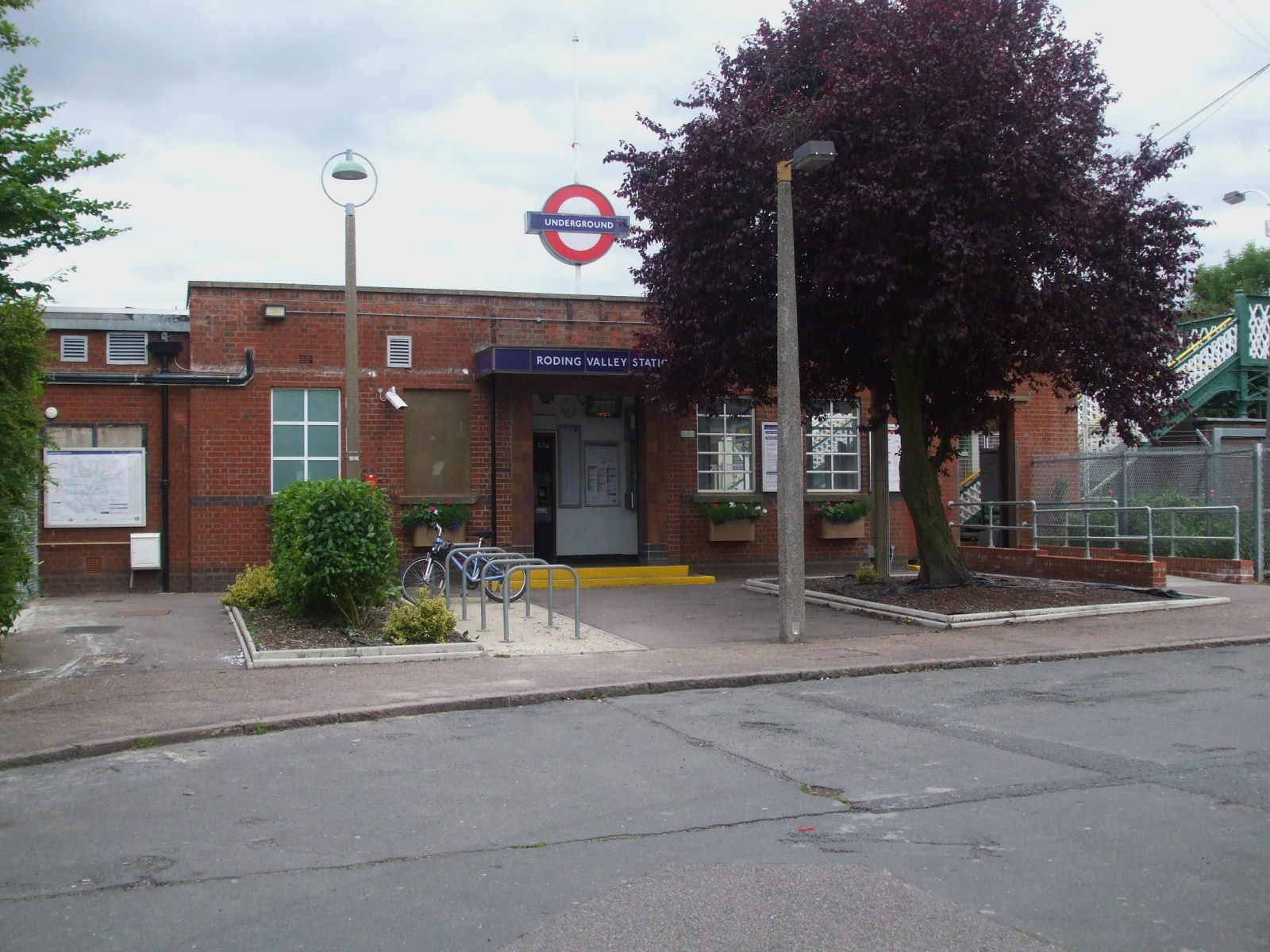 Roding Valley tube station main building on the northern side